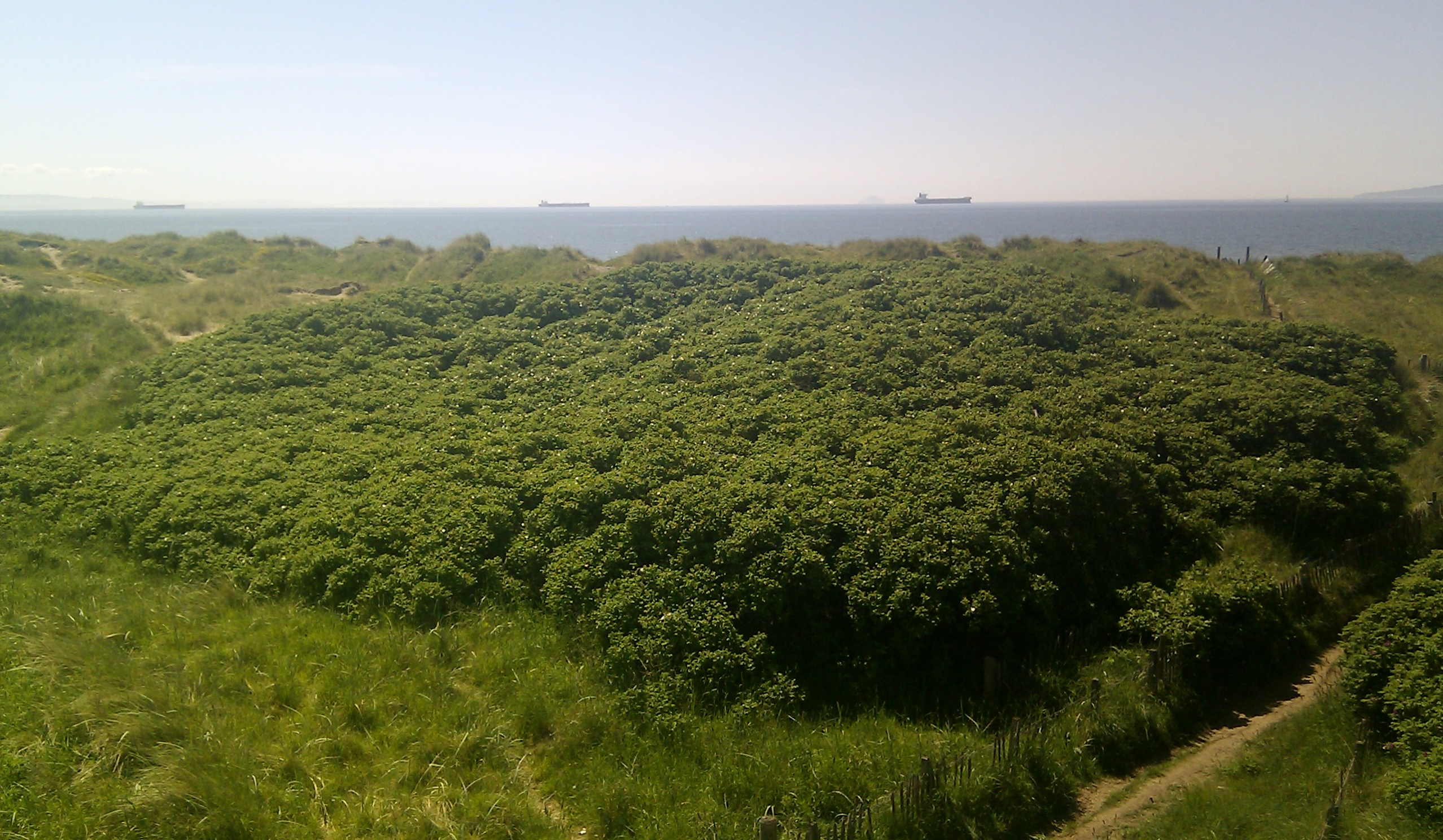 Stevenston Beach Local Nature Reserve and Rosa rugosa invasive non-natives. North Ayrshire, Scotland.